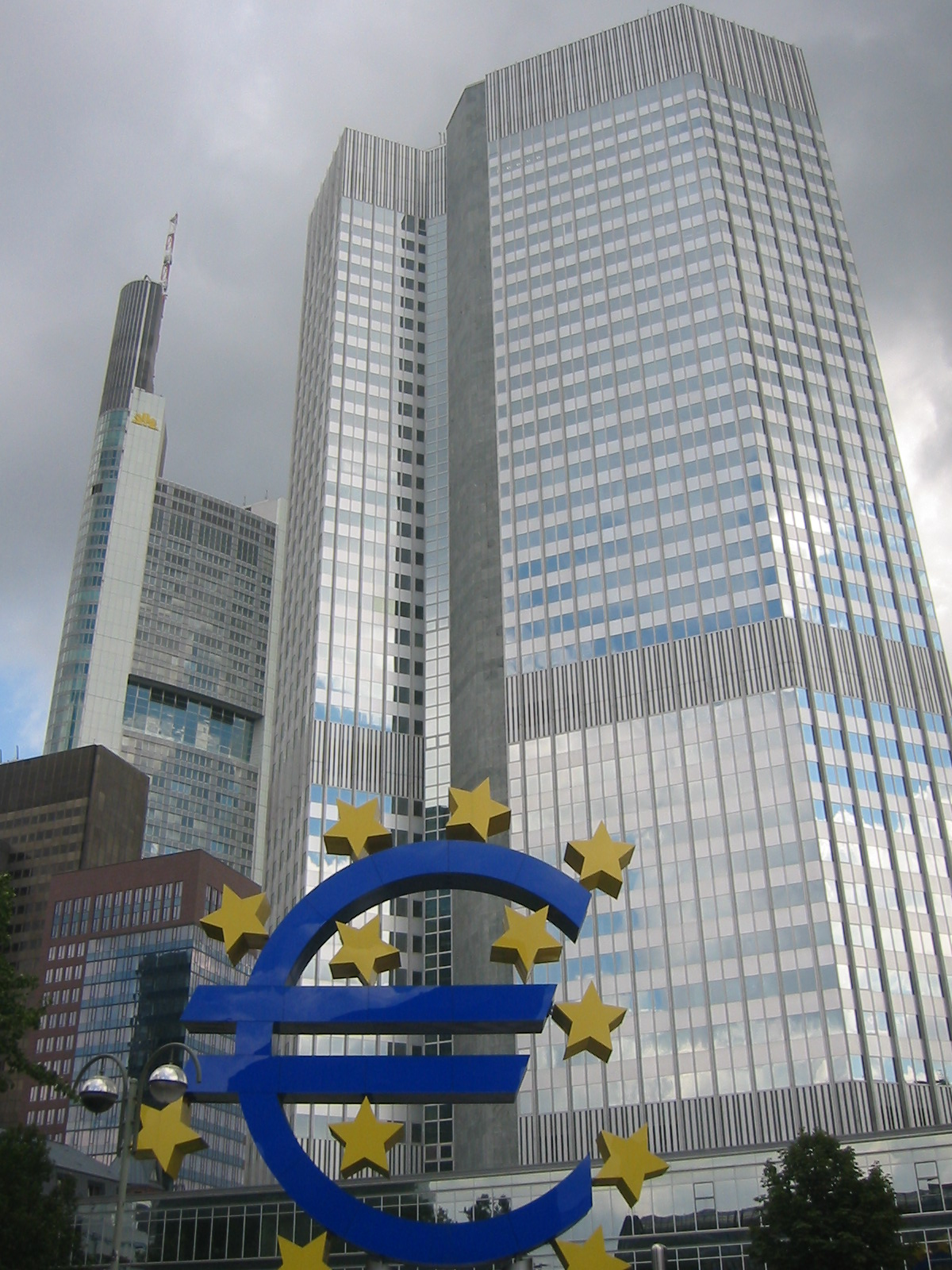 Image:Frankfurt, European Central Bank with Euro.